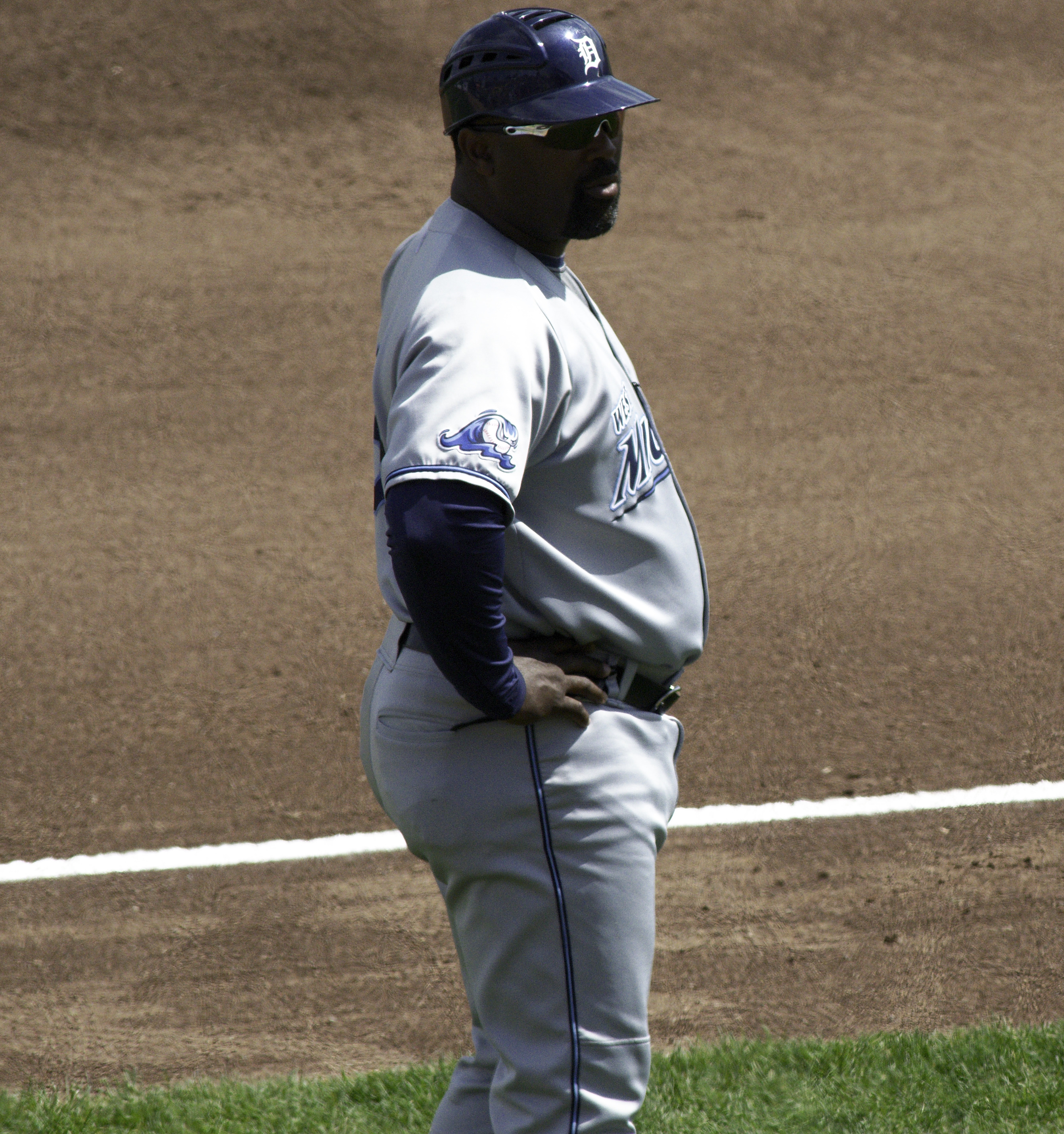 Ernie Young with the West Michigan Whitecaps in 2012